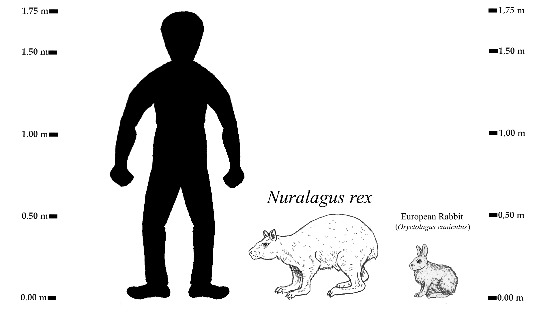 Comparative size nuralagus with current European rabbit and a person 5'9" tall.